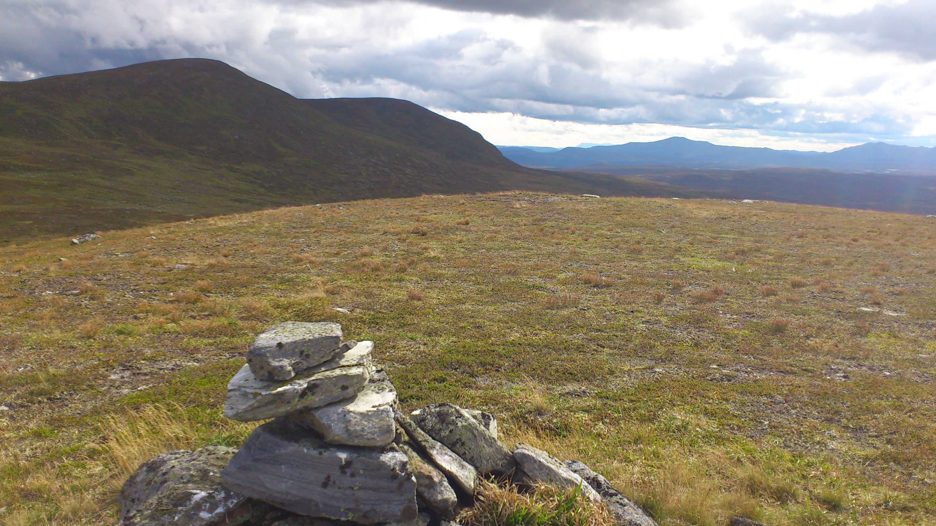 View from the top of the mountain Lill-Axhögen, with the mountain Stor-Axhögen in the background